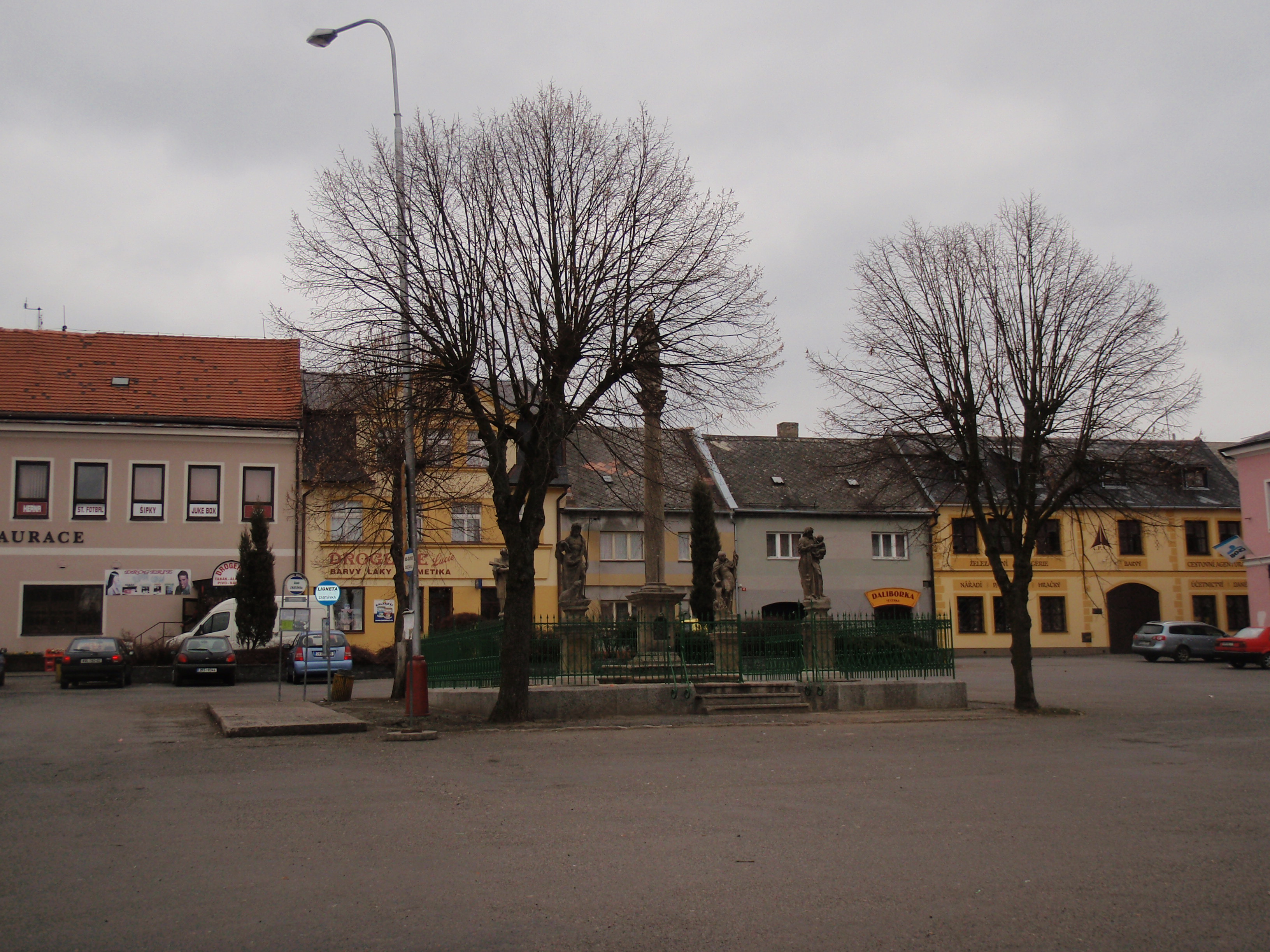 Marian (Plague) column and the city of Fountain Square George of Podebrady